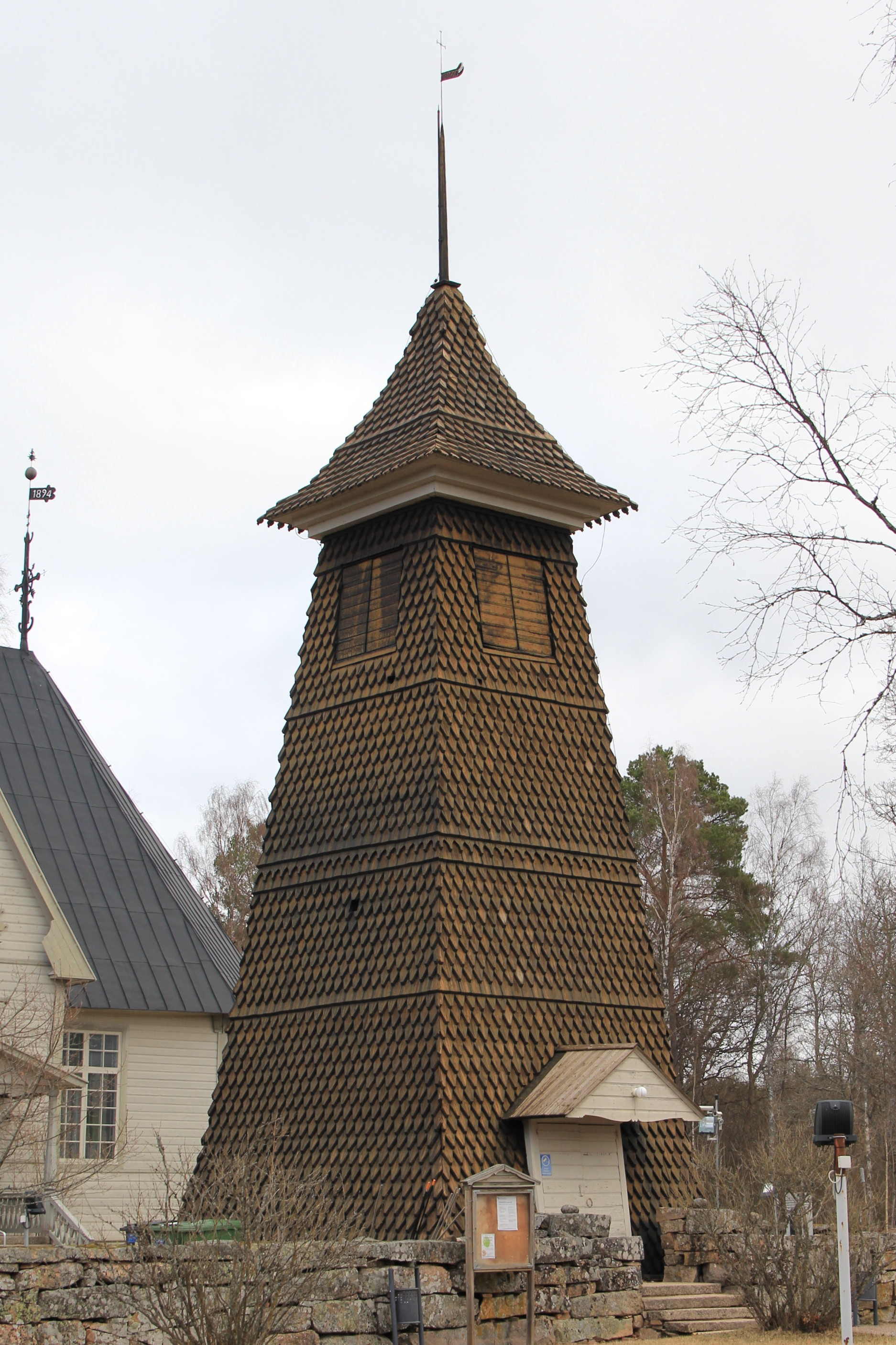 Lokalahti belfry, Uusikaupunki, Finland.